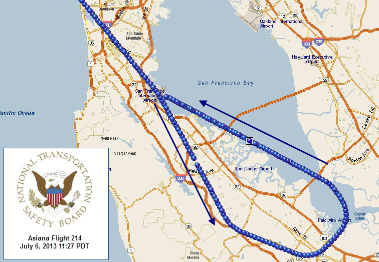 NTSB flight overview map of Asiana Airlines Flight 214's approach to San Francisco International Airport.